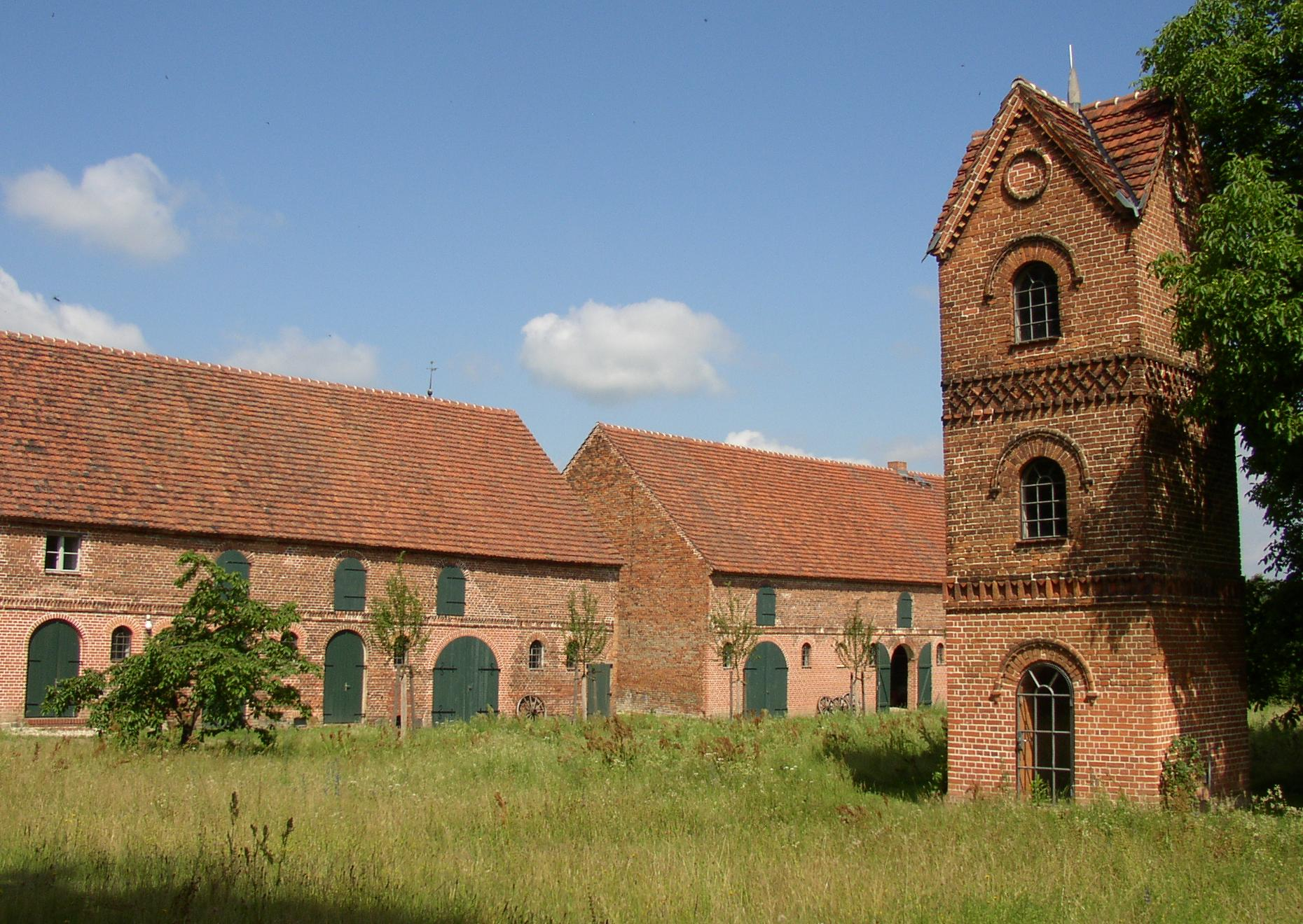 Farmyard in Kleßen in Brandenburg, Germany